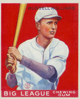 1933 Goudey baseball card of Russell "Red" Rollings of the Atlanta Crackers, previously of the Boston Braves #88. PD-not-renewed.